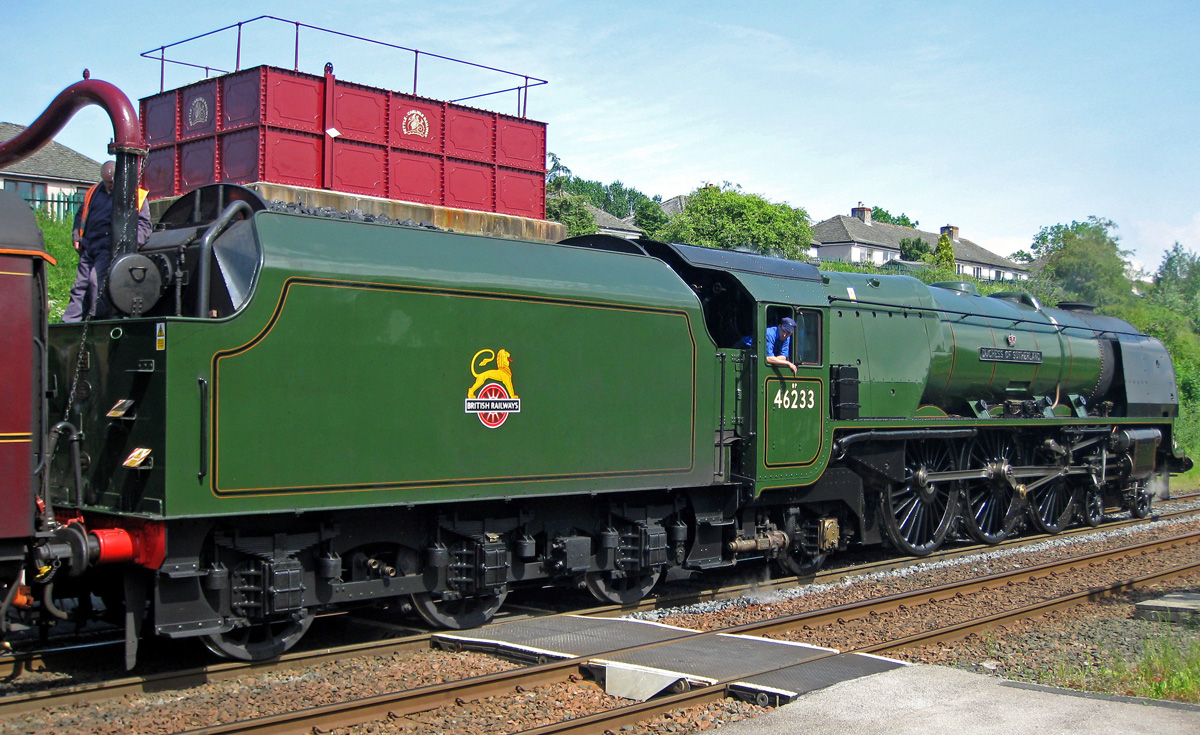 LMS Princess Coronation Class 8P 46233 "Duchess of Sutherland" in BR Brunswick green at Appleby Station in 2012